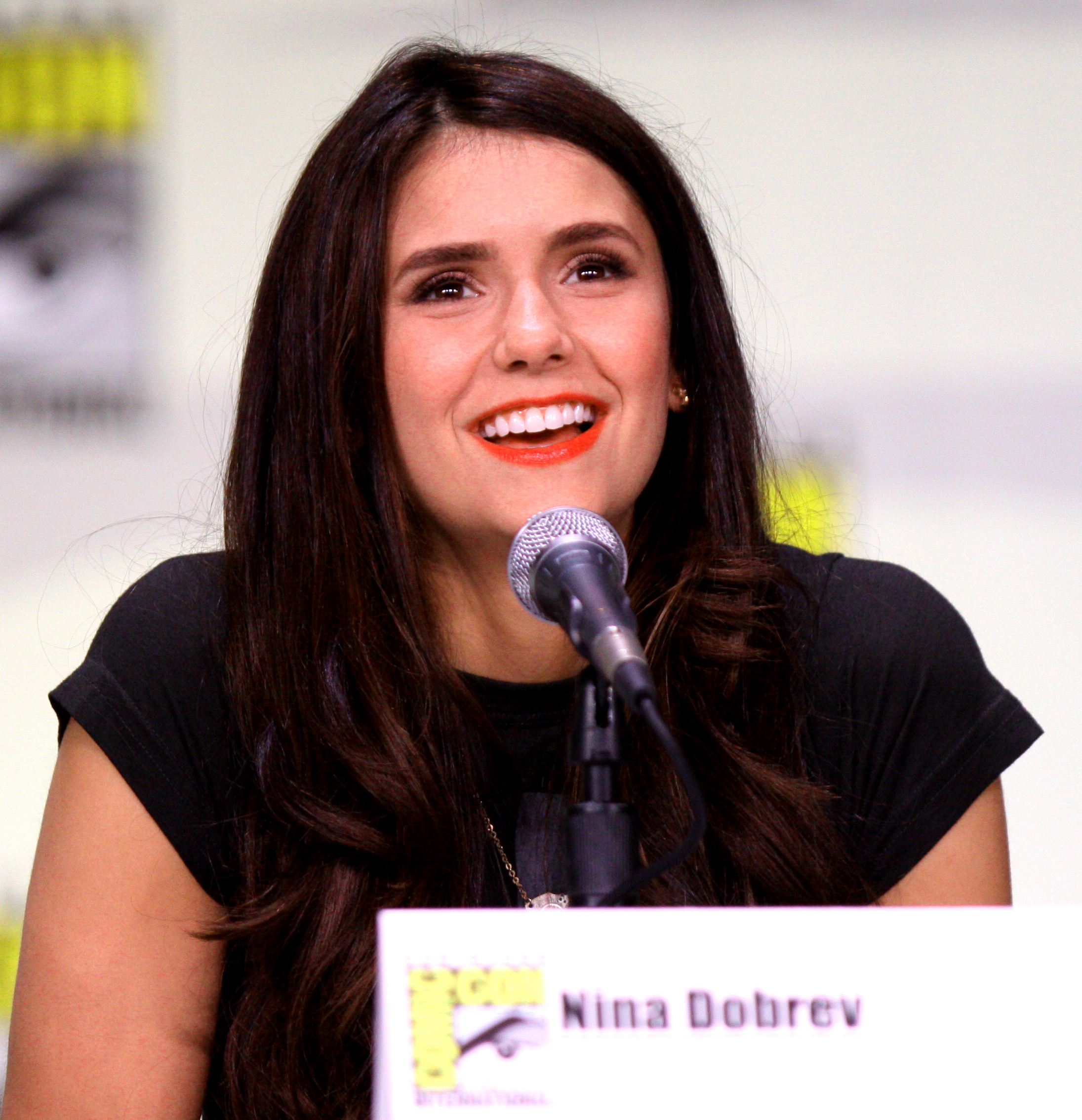 Nina Dobrev at the 2011 San Diego Comic-Con.